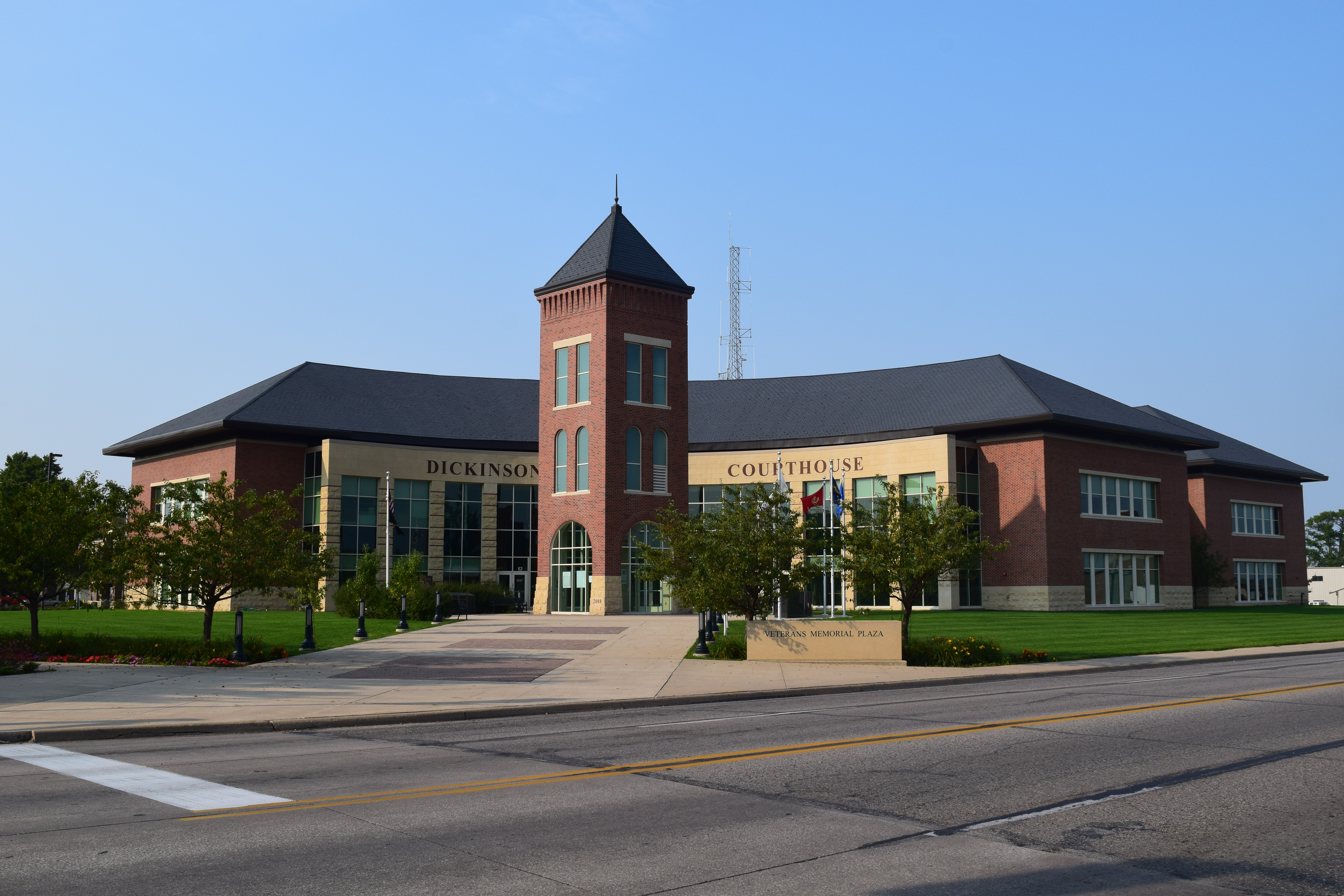 The current Dickinson County Courthouse in Spirit Lake, Iowa, which was built in 2009 to replace a historic courthouse.